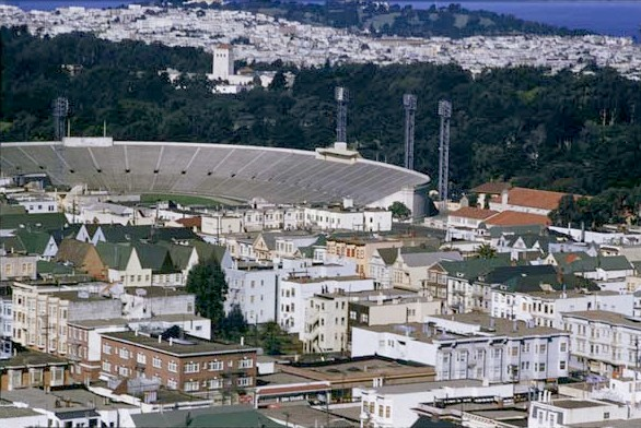 Description: From Mt. Olympus - toward Tamalpais & to Kozar were out too far to left and had to be remounted Creator: Cushman, Charles Weever, 1896-1972 View source image or order reproductions . More information on the commercial rights for this photo . Part of Charles W. Cushman Collection Indiana University, Bloomington. University Archives . Brought to you by IMLS Digital Collections and Content . Unrestricted access; use with attribution.